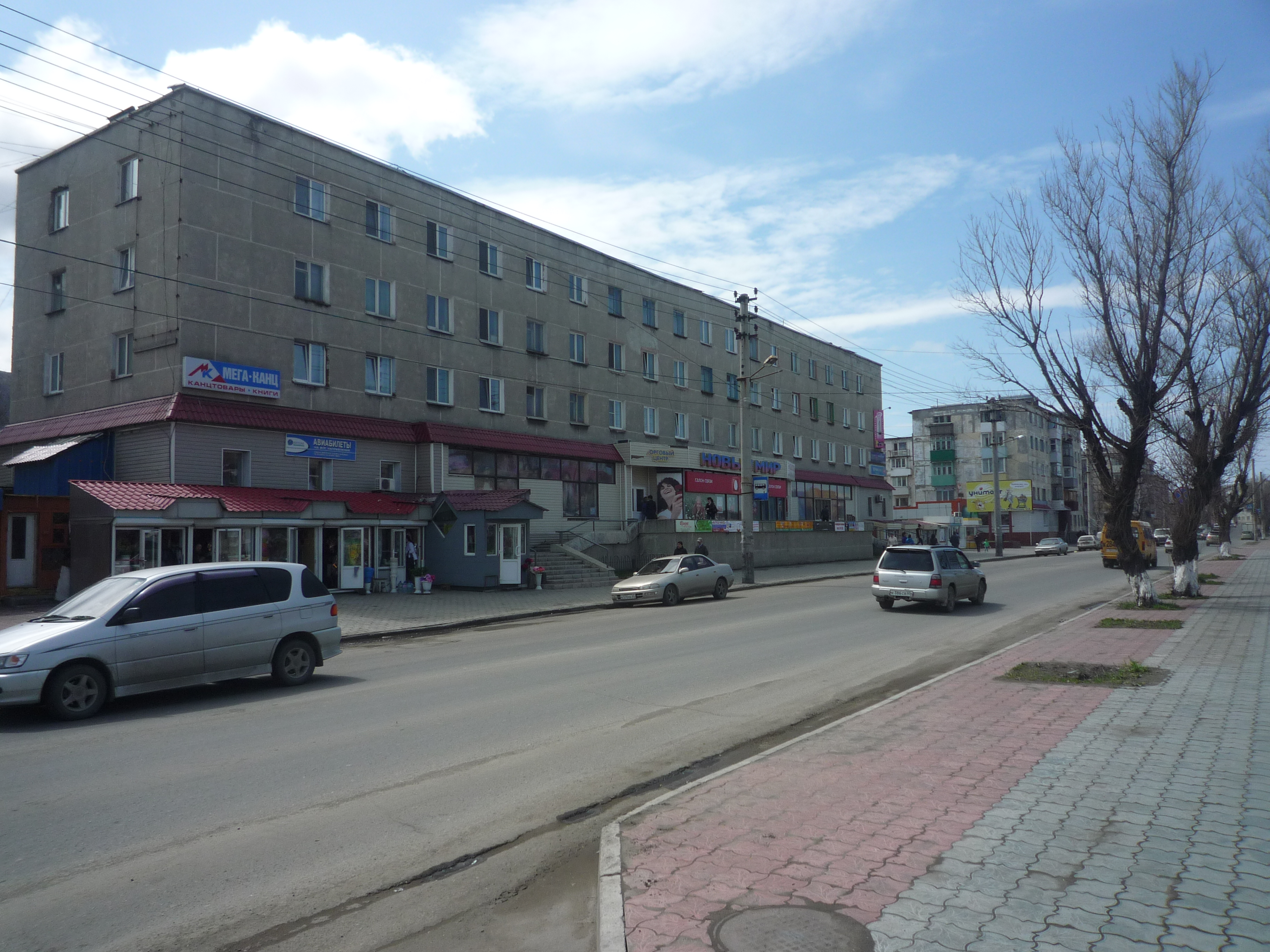 Второй микрорайон